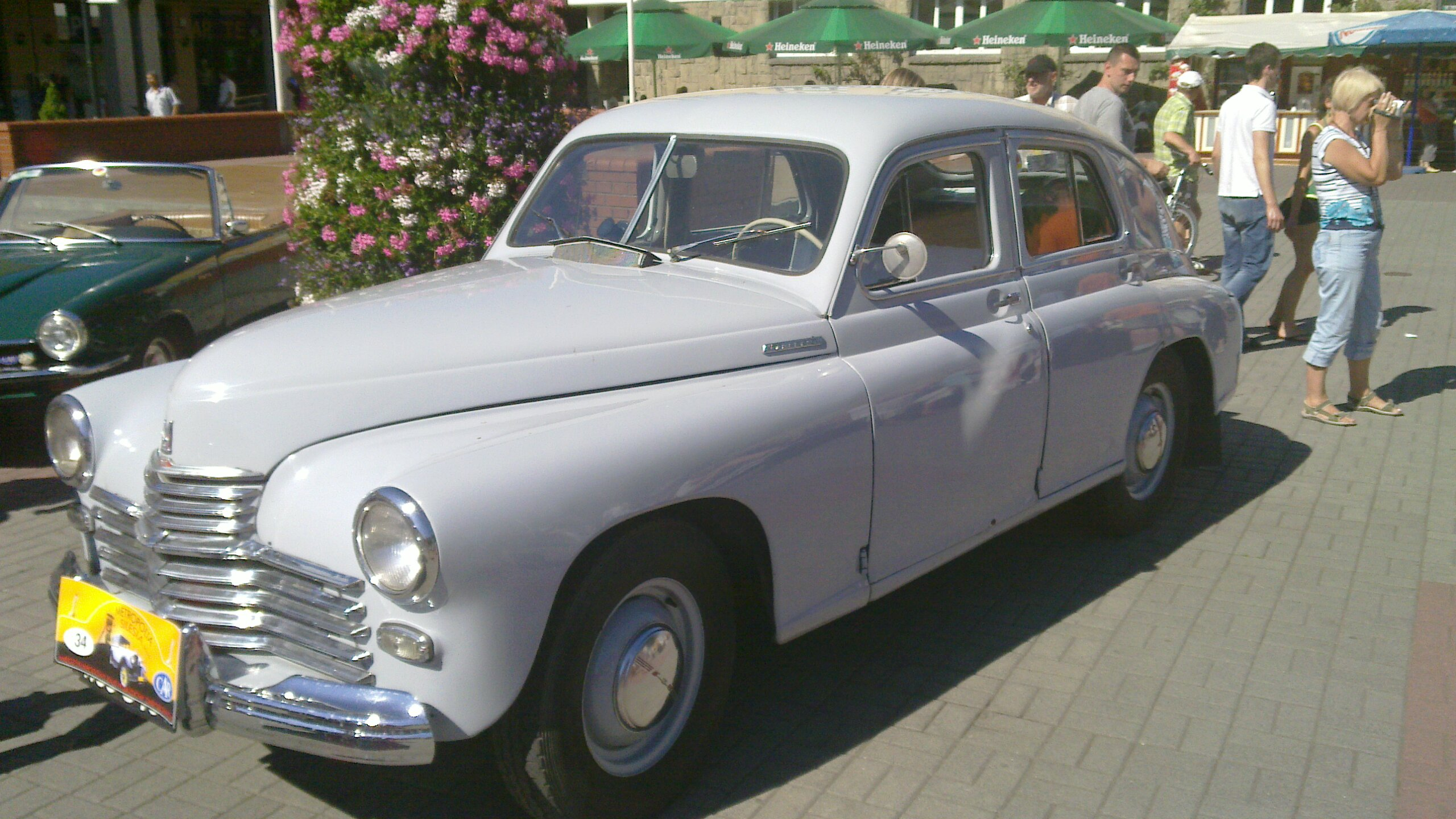 Old car exhibition. Wisa, Poland, 10 July 2010.